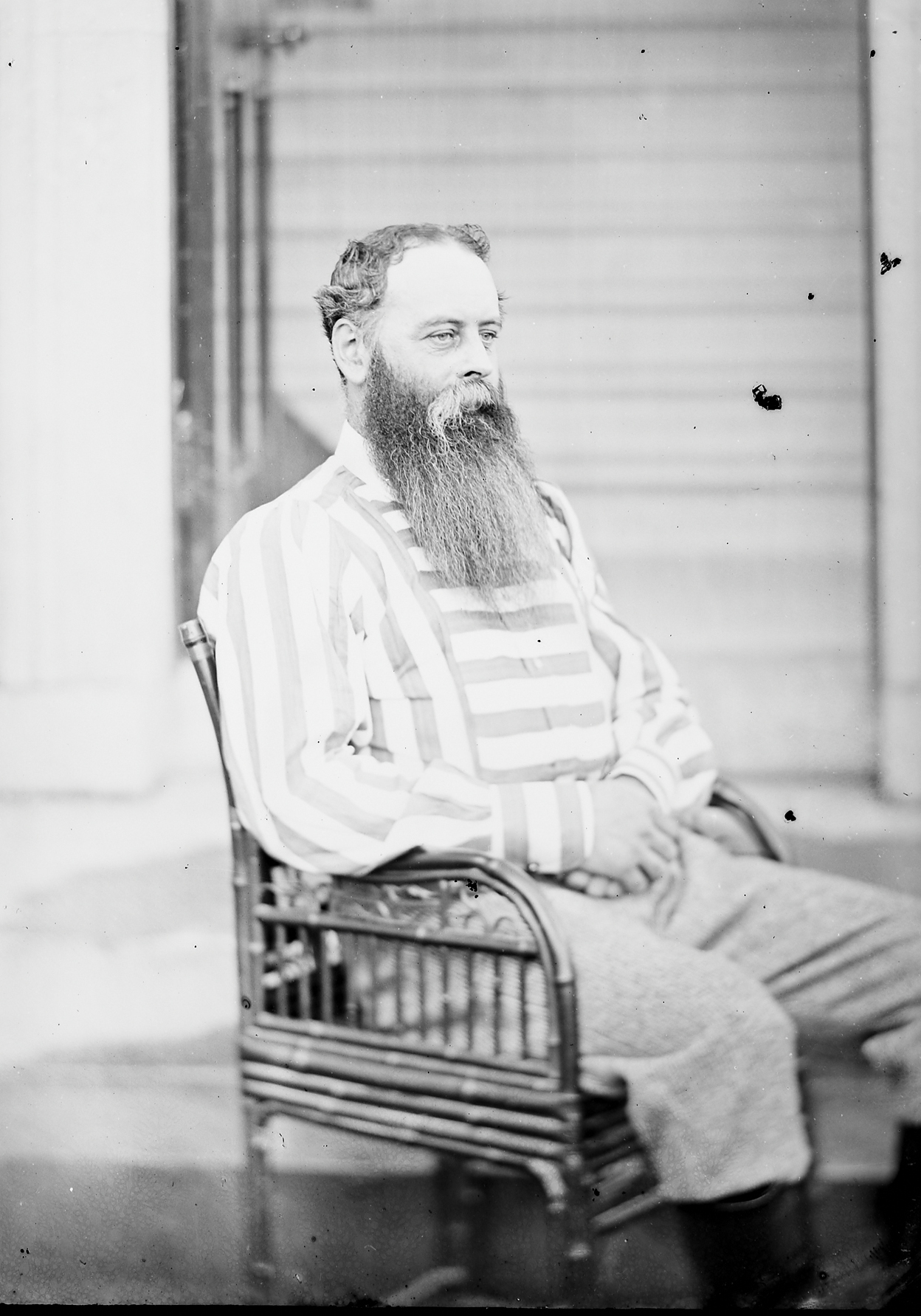 A portrait of a gentleman in what looks for all the world like a prisoners striped shirt, and which is dated to 151 years ago. Lord Alan Spencer Churchill must surely be connected to the more famous bearers of that name (both before and after?). What can we find out about him, and why was he a subject for the Dillons of Ahascragh? With thanks to everyone's contributions today, and in particular those from [/photos/scorbet/ sharon.corbet], [/photos/beachcomberaustralia/ beachcomber], and [/photos/gnmcauley/ Niall McAuley], it is confirmed that the catalogue is likely correct and this is Lord Alan Spencer-Churchill (1825-1873) photographed in the 1860s. The guys tell us that he is connected (via the Churchill line) to the Duke of Marlborough and Winston Churchill, and (via the Spencer line) to Princess Diana. It is this via this Spencer line that he is also associated to the Clonbrock estate. (His relation Caroline Elizabeth Spencer became Baroness Clonbrock when she married Robert Dillon in the 1830s).... Photographers: Dillon Family Contributors: Luke Gerald Dillon, Augusta Caroline Dillon Collection: Clonbrock photographic Collection Date: 23 January 1866 NLI Ref: CLON420 You can also view this image, and many thousands of others, on the NLI’s catalogue at